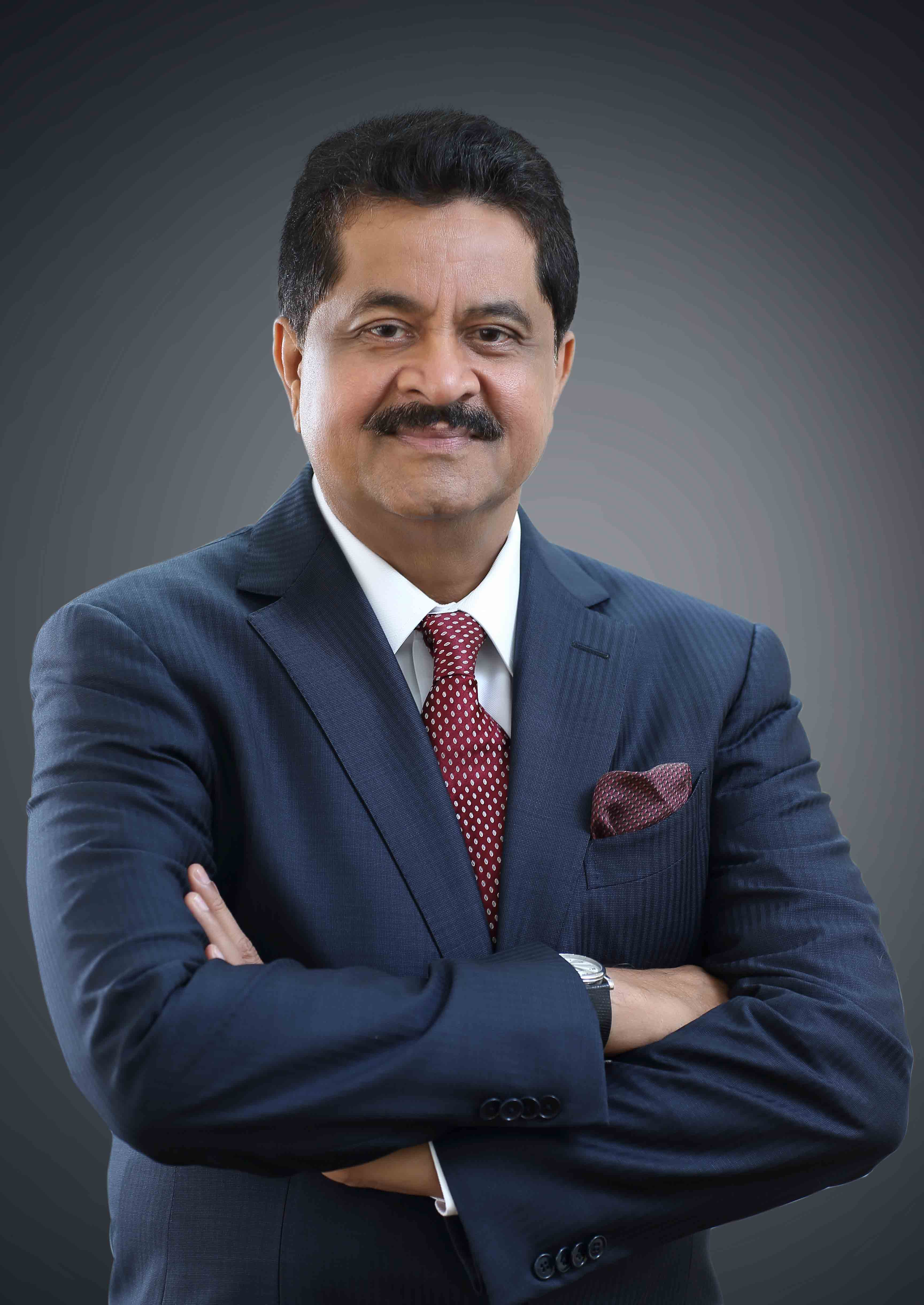 Profile pic of Mr. Thumbay Moideen